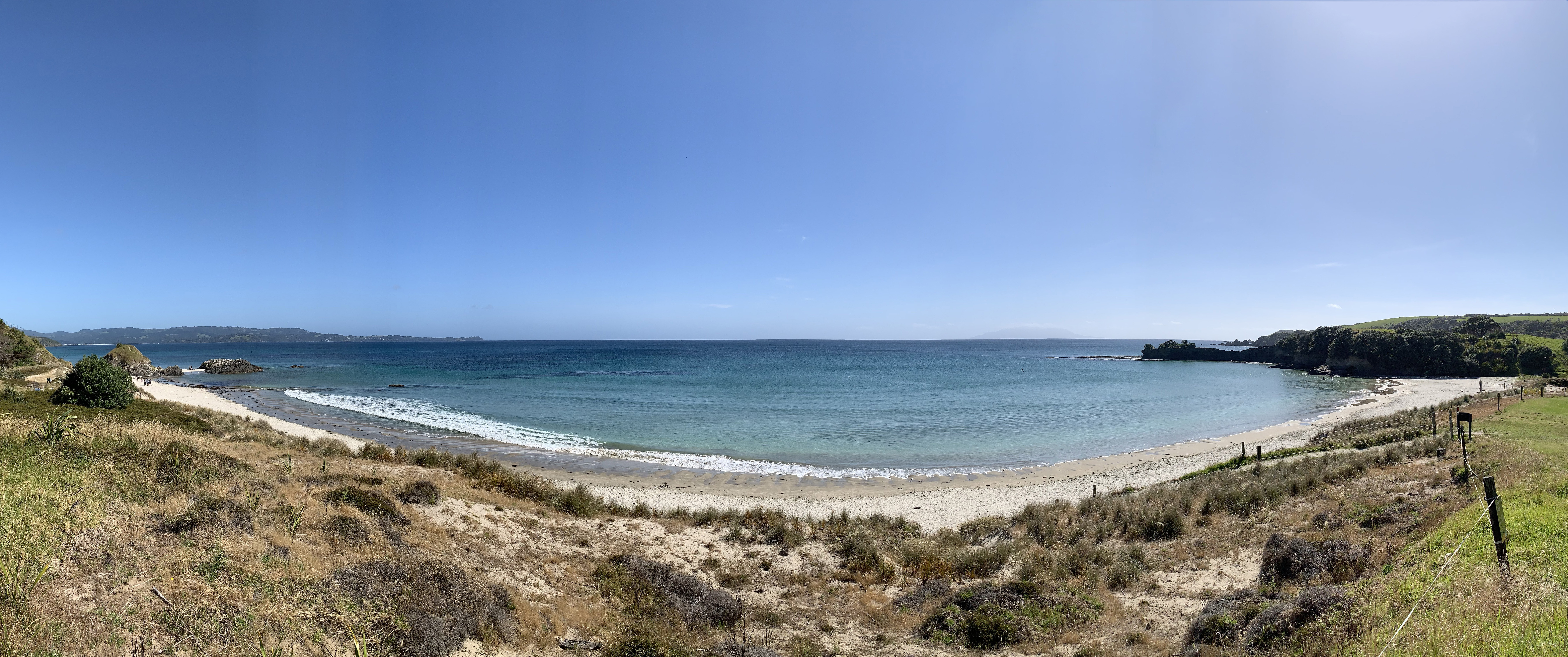 Panorama of the Tawharanui Peninsula coast, overlooking Anchor Bay, on the horizon on the right is Little Barrier Island